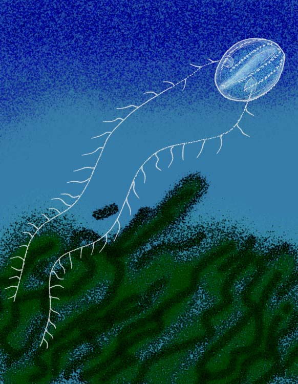 Reconstruction of the Emsian ctenophore, Paleoctenophora brasseli, of the Lower Devonian Hunsruck Lagerstatte, of Germany